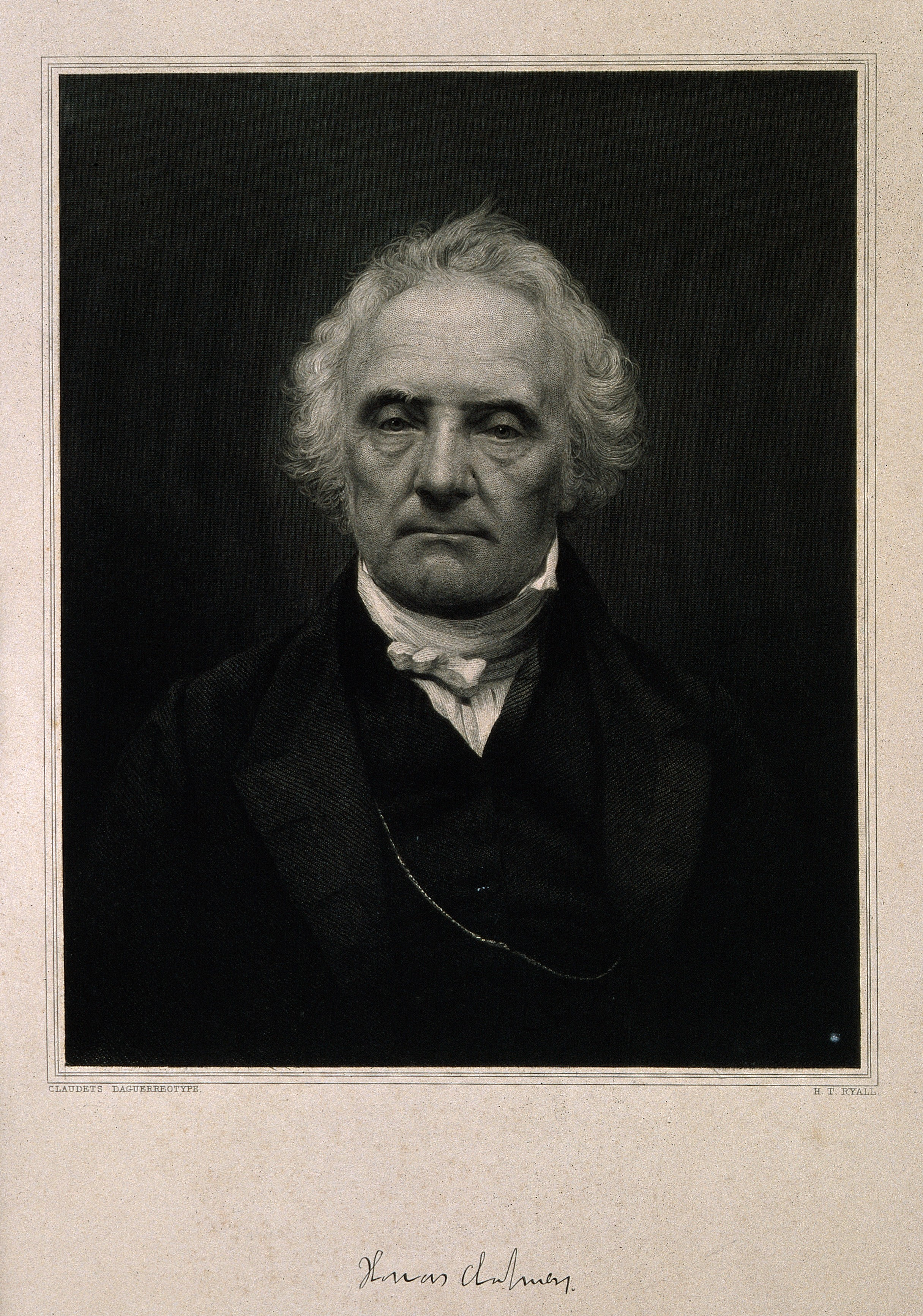 Thomas Chalmers. Stipple engraving by H. T. Ryall, 1848, after Claudet. Iconographic Collections Keywords: portrait prints; chalmers, thomas, 1780-1847; Thomas Chalmers; stipple prints; H. T. Ryall